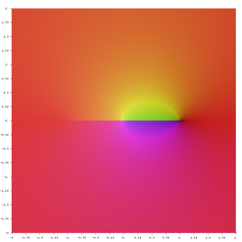 function ArcSec[z] in the complex plane